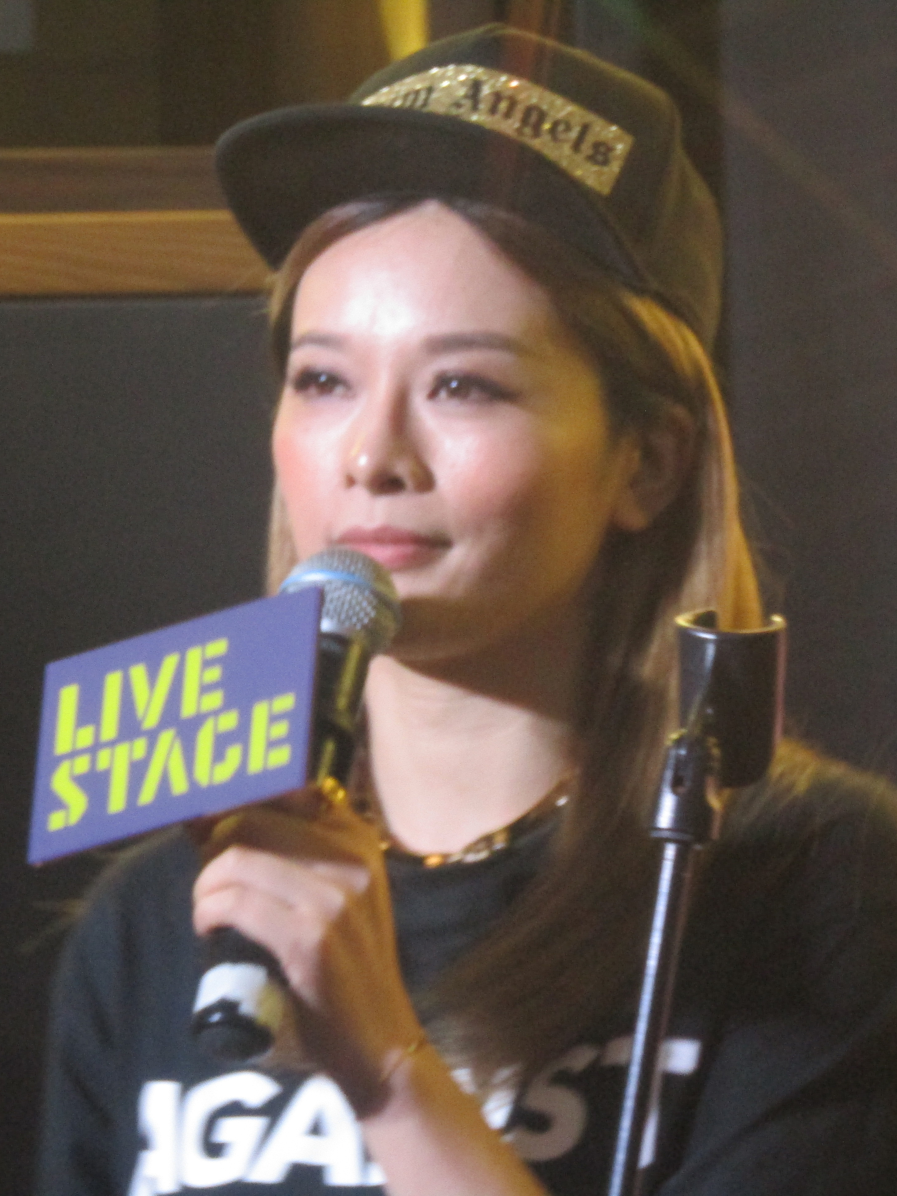 Shay Liu is singing at Langham Place, Mong Kok